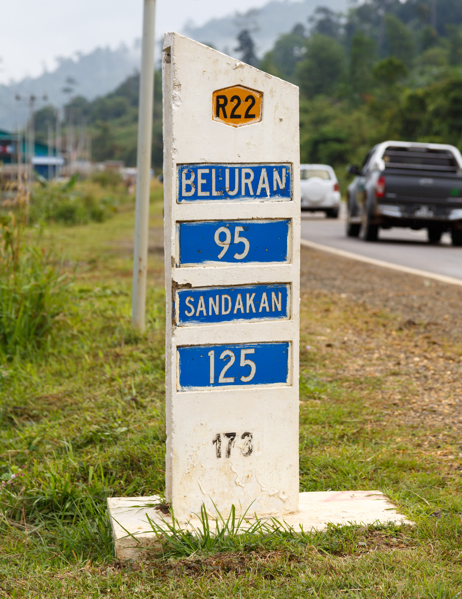 Telupid, Sabah, Malaysia: A Milestone of the Malaysia Federal Route 22, which is part of the Trans Borneo Highway